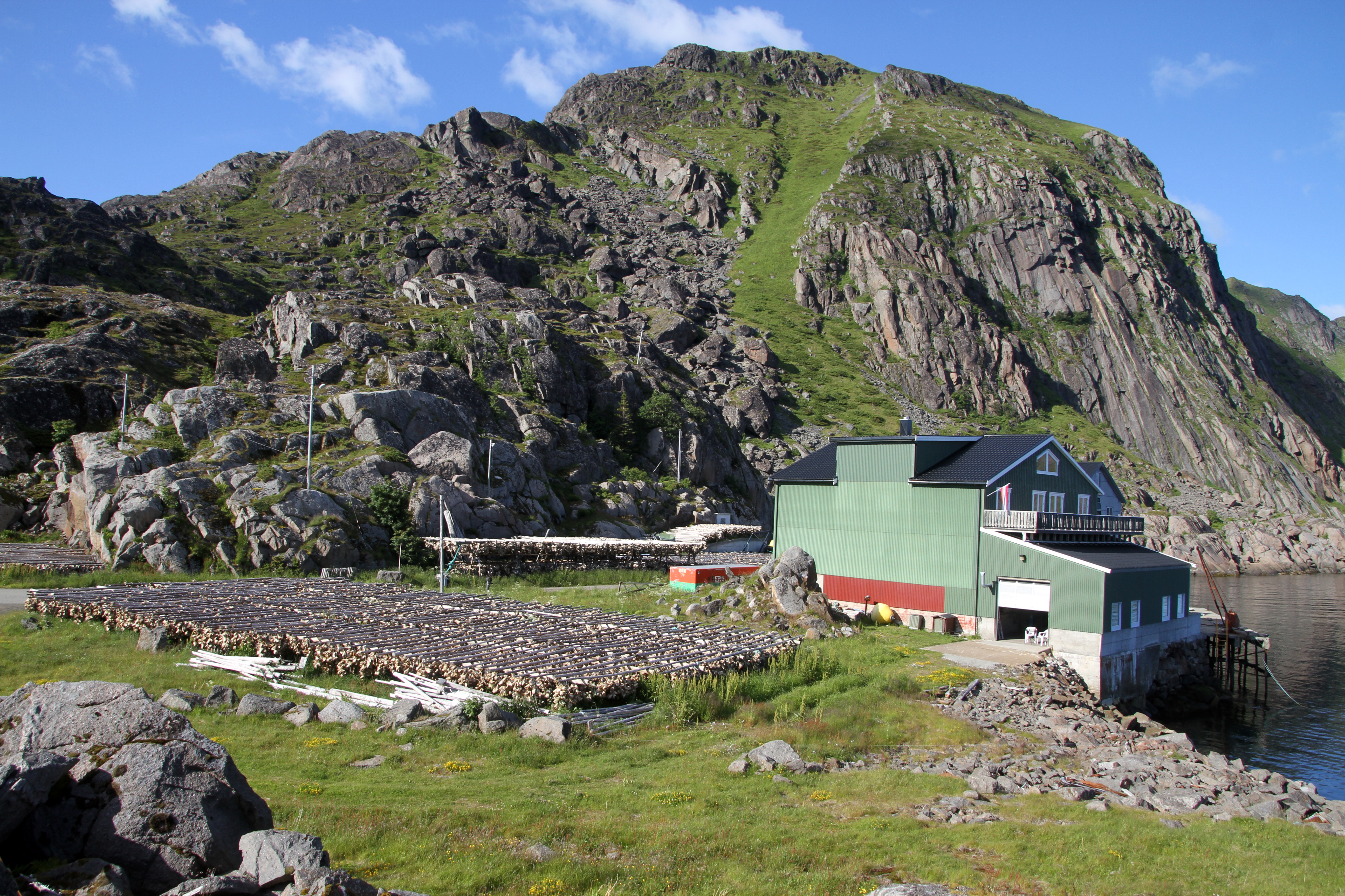 Settlement Mortsund, Vestvågøy, Lofoten, Norwegen